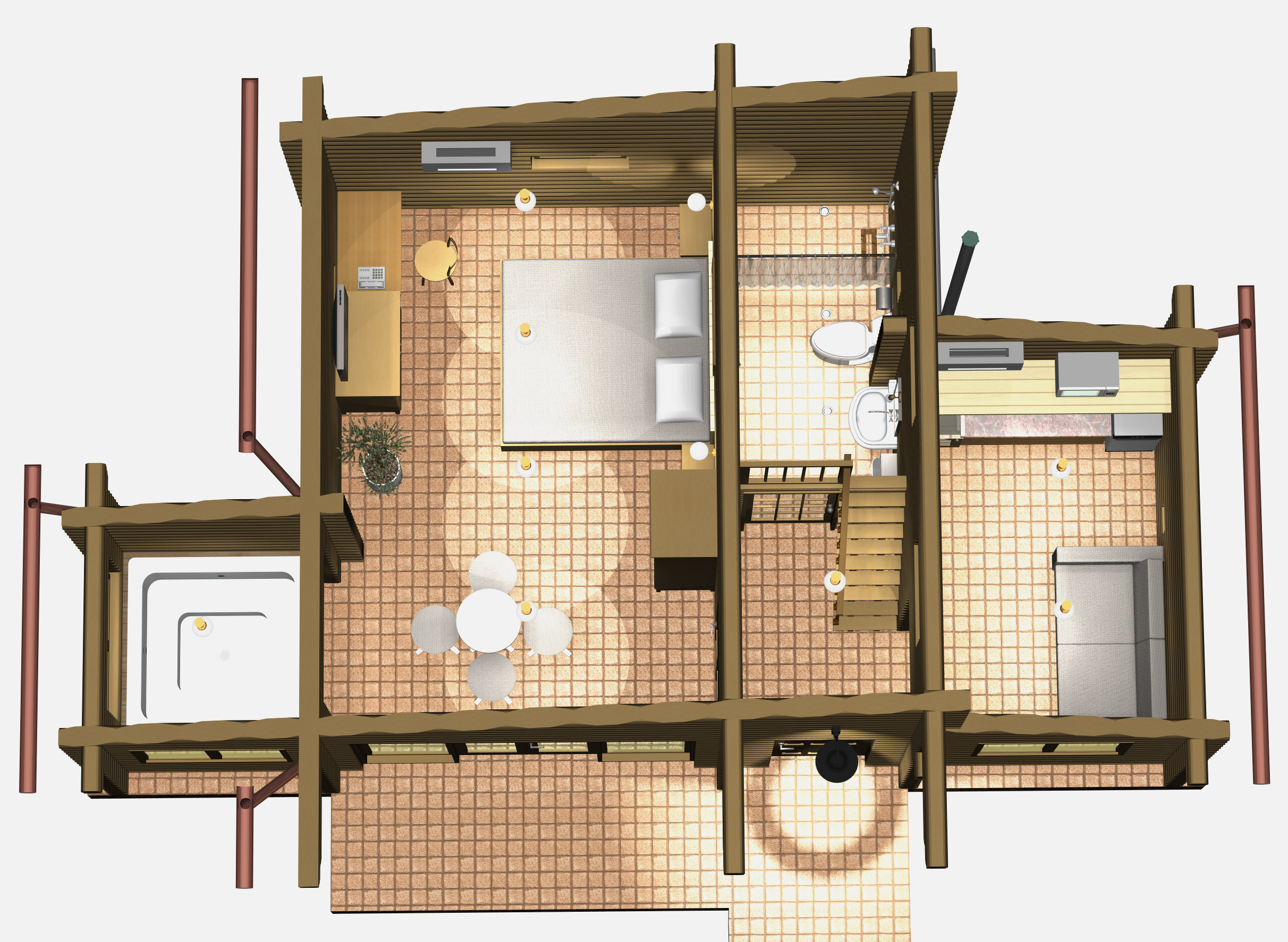 Zimmer standart